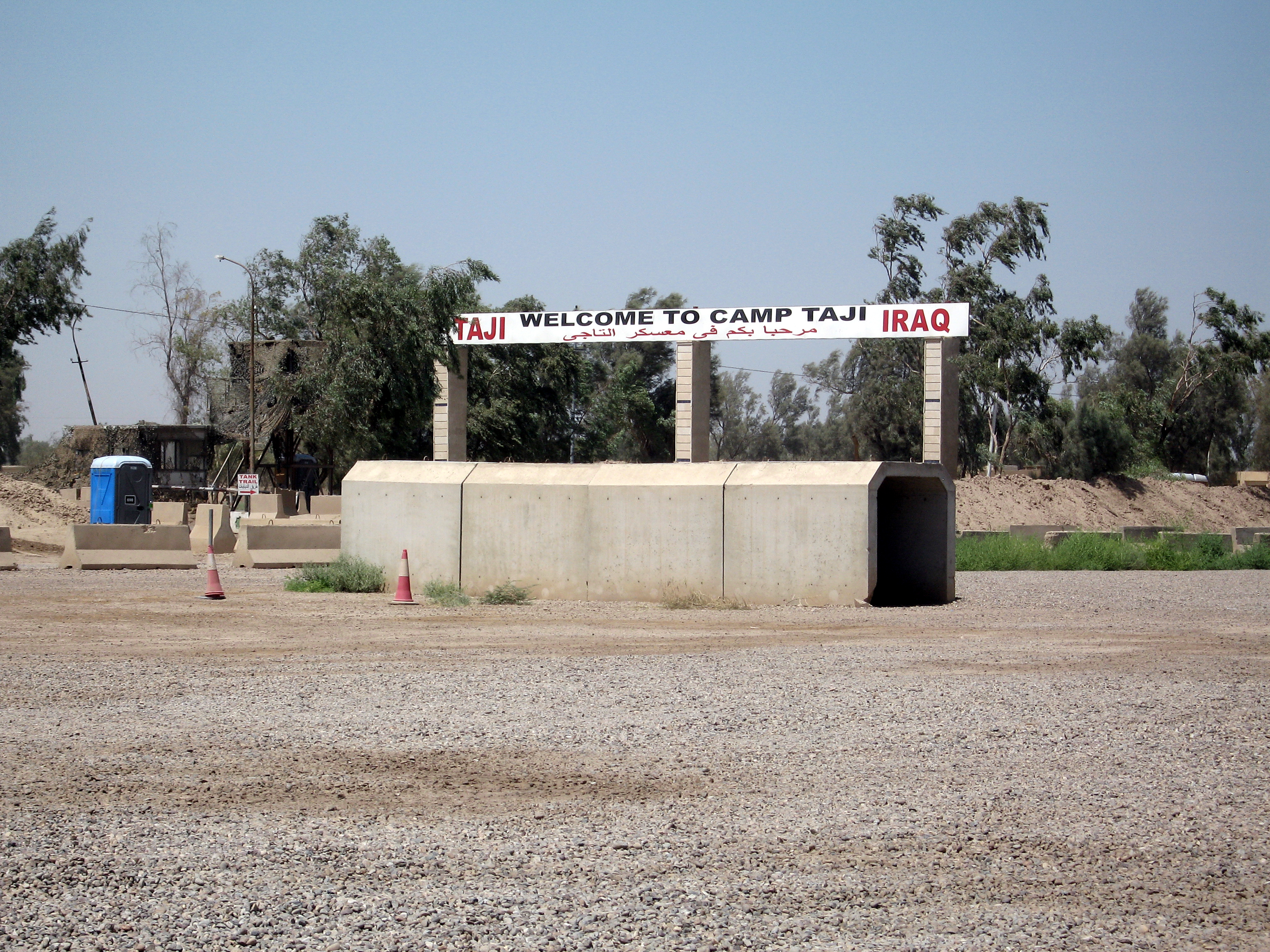 Welcome sign at the main entrance of Camp Taji, Iraq